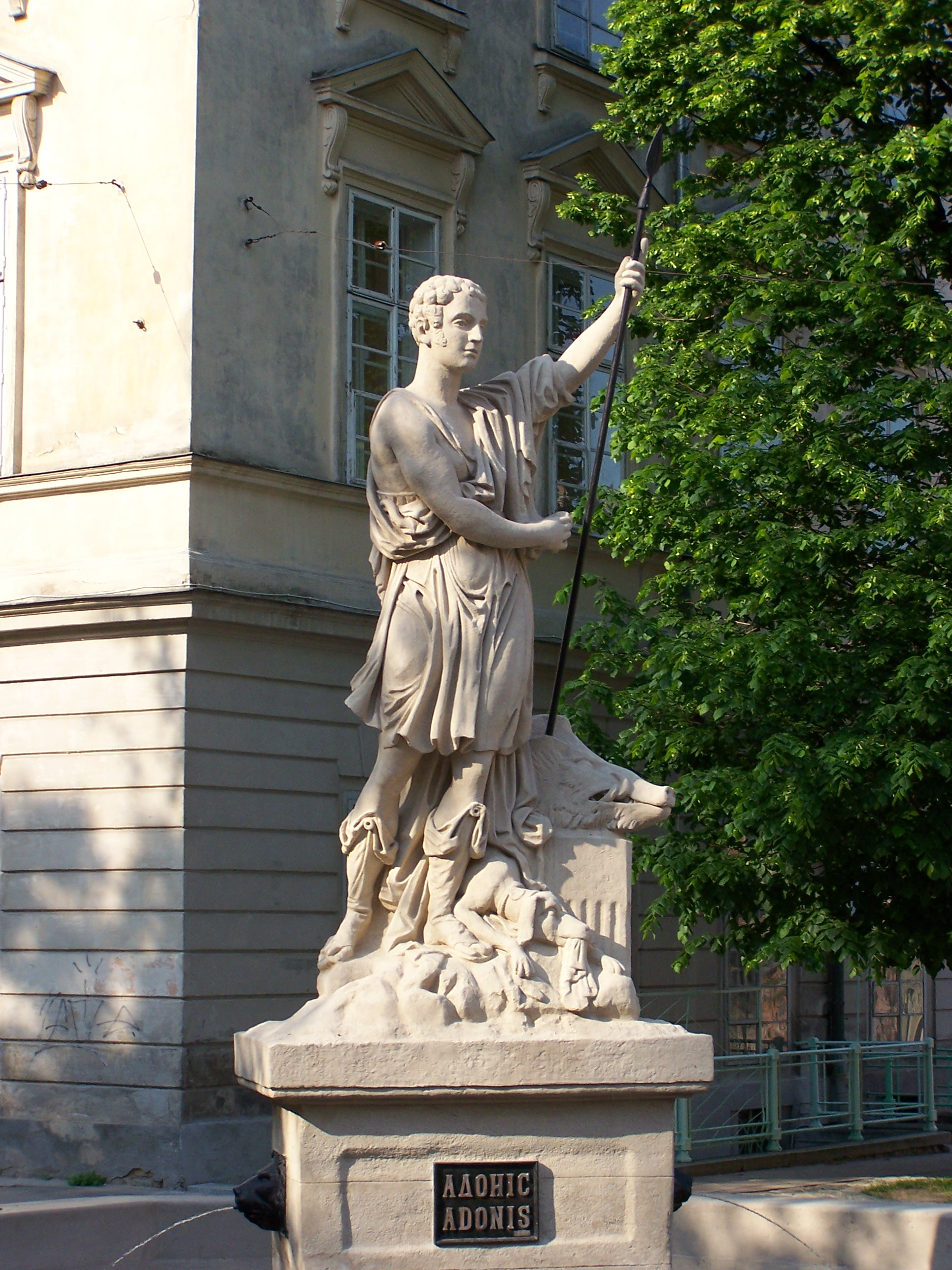 A statue of Adonis (Lviv, Ukraine).